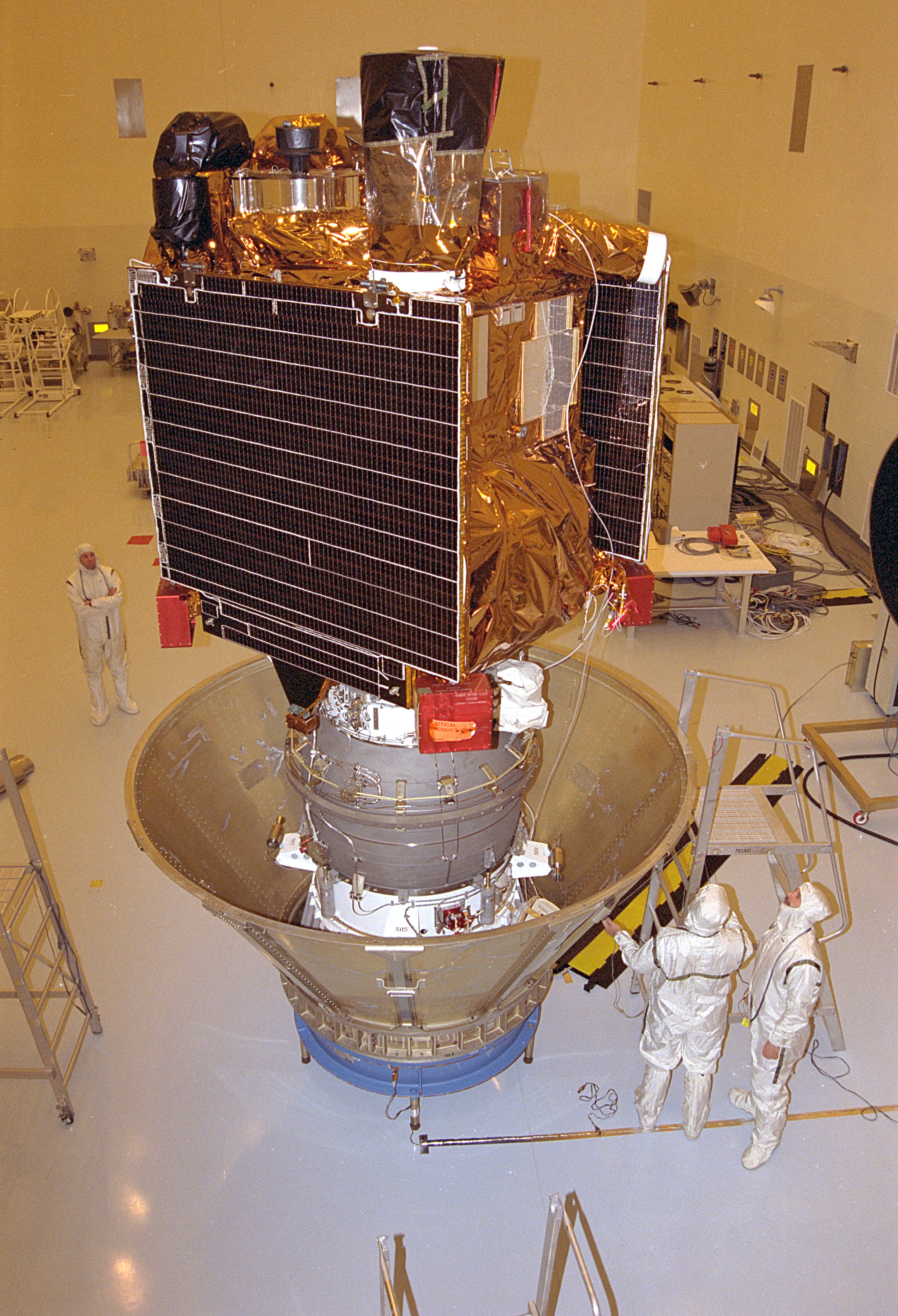 Jet Propulsion Laboratory (JPL) workers in the Payload Hazardous Servicing Facility (PHSF) prepare the Mars Global Surveyor spacecraft for transfer to the launch pad by placing it in a protective canister. The Surveyor spacecraft (upper) is already mated to its solid propellant upper stage booster (lower), which is actually the third stage of the Delta II expendable launch vehicle that will propel the spacecraft on its interplanetary journey to the Red Planet. Once at Launch Pad 17A on Cape Canaveral Air Station, the spacecraft and booster assembly will be stacked atop the Delta vehicle. The Surveyor is slated for liftoff on Nov. 6, 1996 at the beginning of a 20 day launch period.